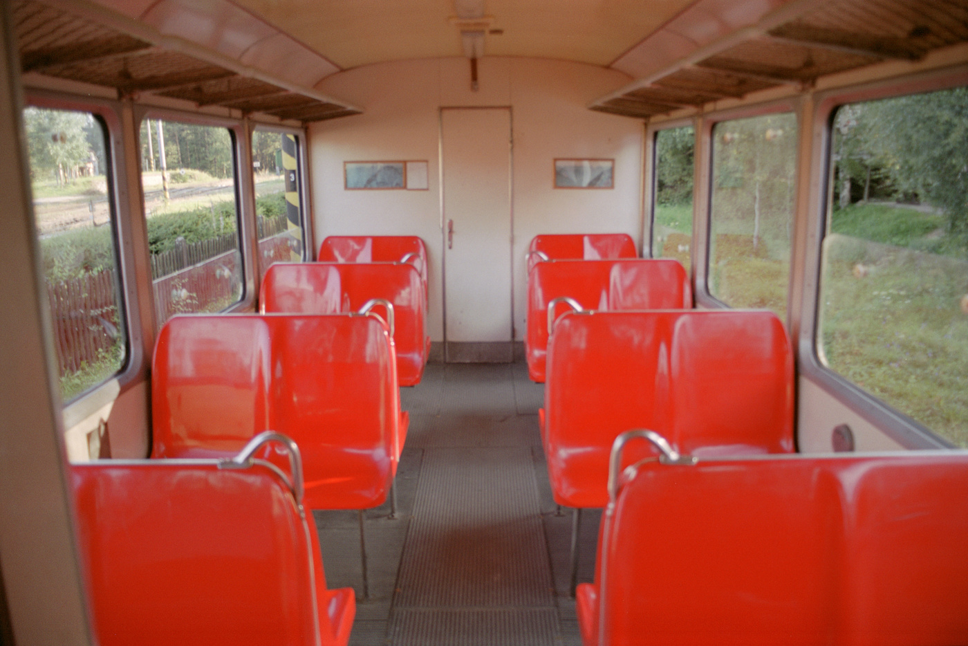 train of the Tatra electric railway, inside the passenger cabin own picture, taken in summer 2000